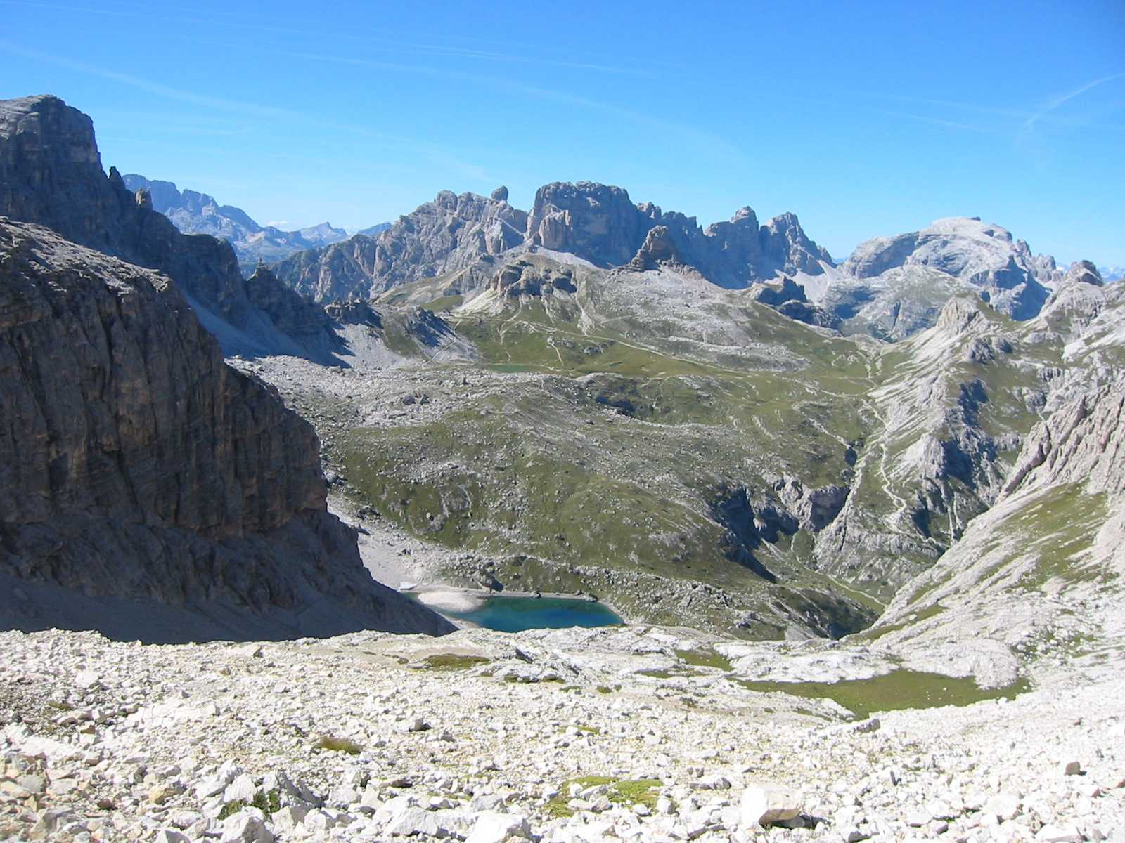 Bodenalm, Alpe Dei Piani